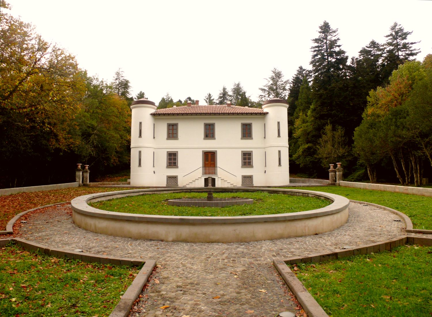 Villa Benjamin Herbert Piercy - Badde Salighes - Bolotana - Province of Nuoro - Sardinia